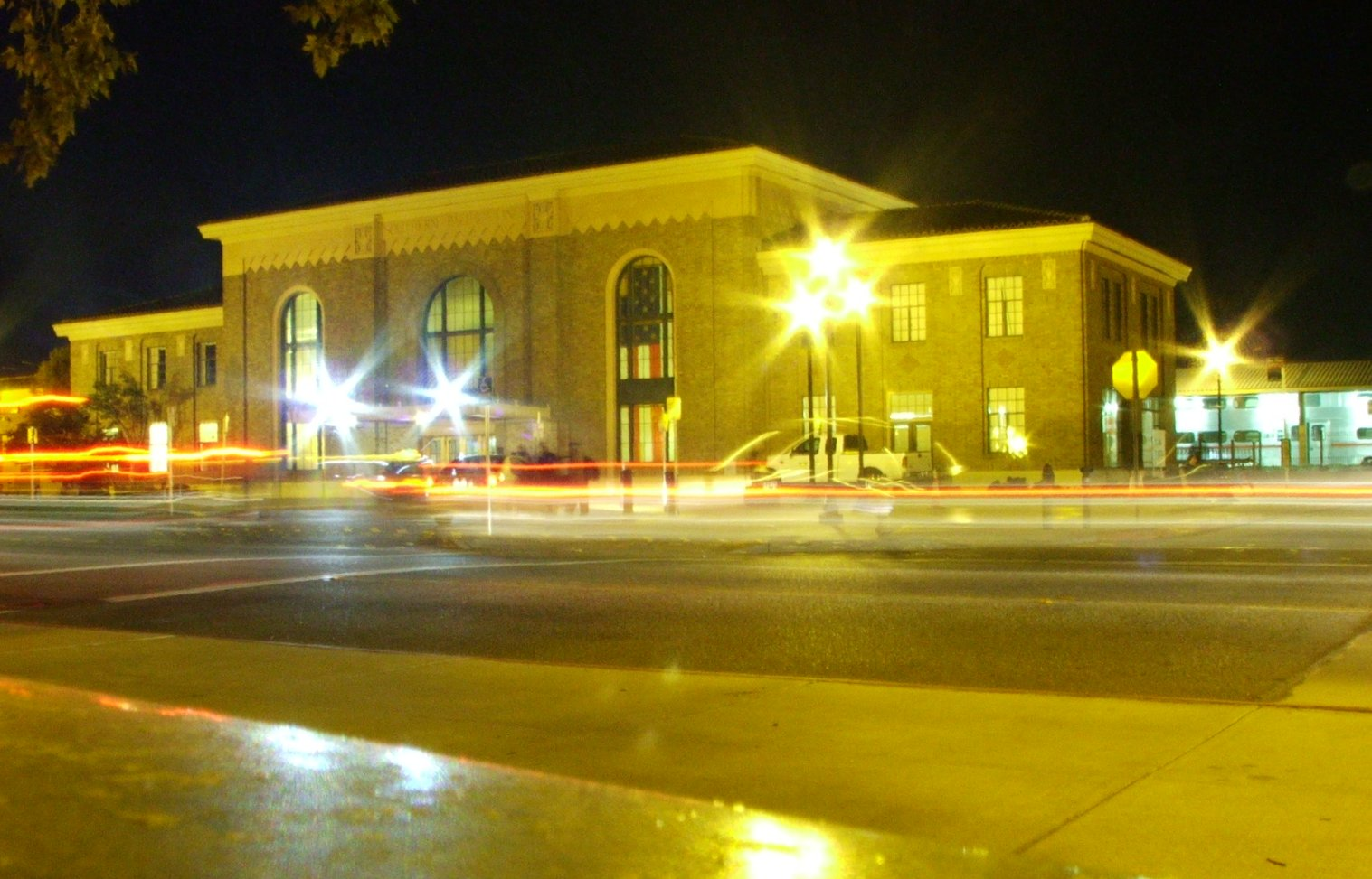 Diridon Station at night, San Jose, California, United States, November 2005.